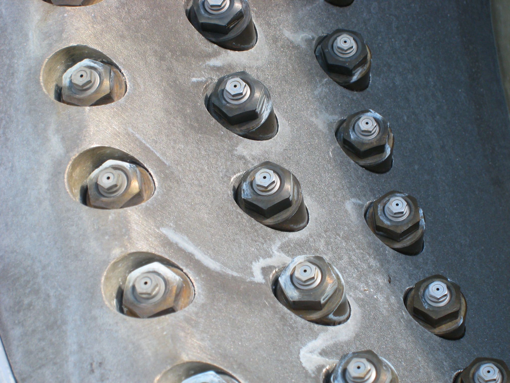 Close up to the nozzles of a snow cannon